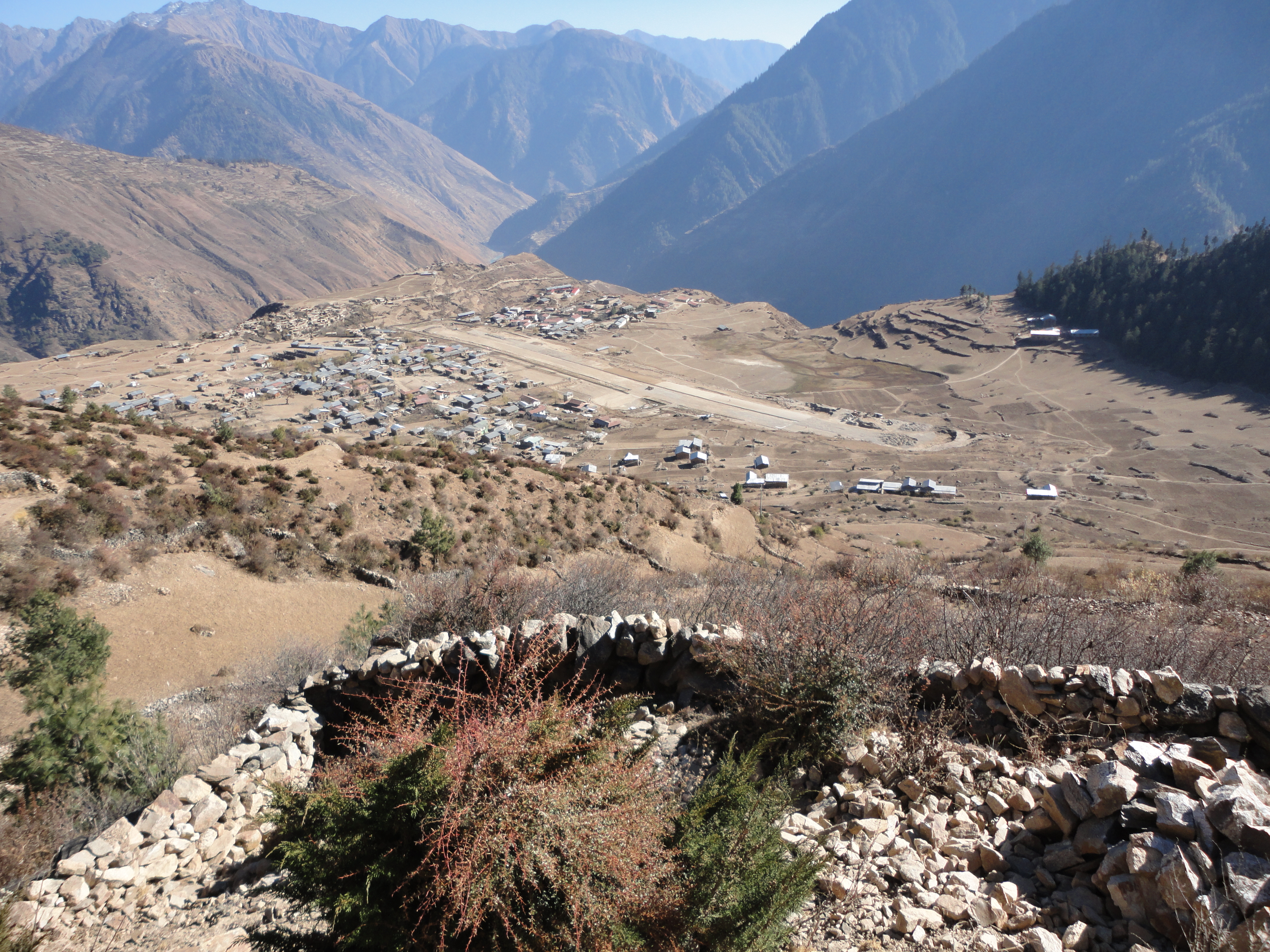 Simikot the district headquarter of Humla District is the highest altitude district headquarter in Nepal.